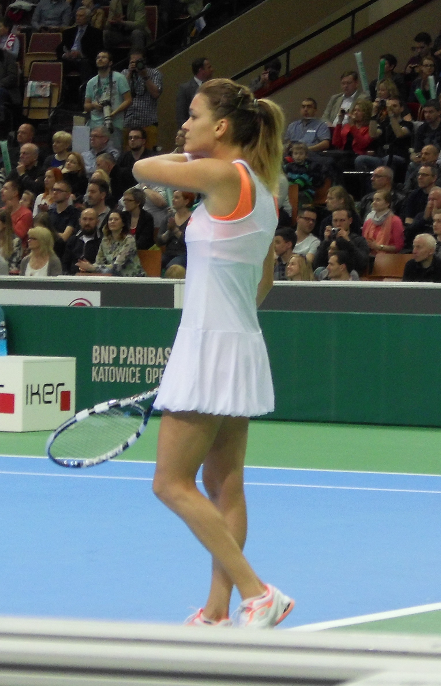 Agnieszka Radwańska during semifinal match at BNP Paribas Katowice Open 2014